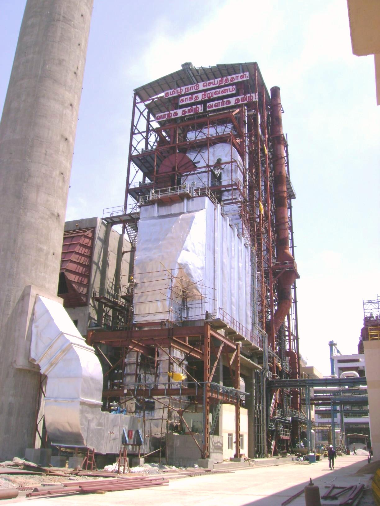 Enmas Andritz has installed a chemical recovery boiler of capacity 1300 tdsd black liquor dry solids firing at Tamil Nadu Newsprint and Papers Limited(TNPL), Pugalur. This chemical recovery boiler is the Tallest chemical recovery boiler of large capacity in India.